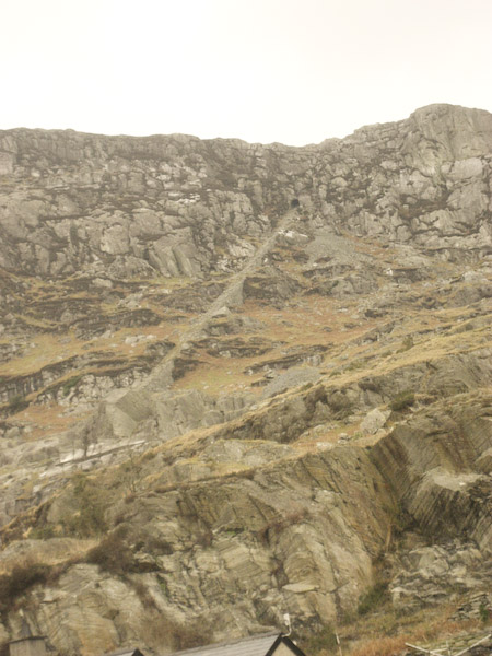 The incline from Wrysgan slate quarry to the Ffestiniog Railway, above Tanygrisiau